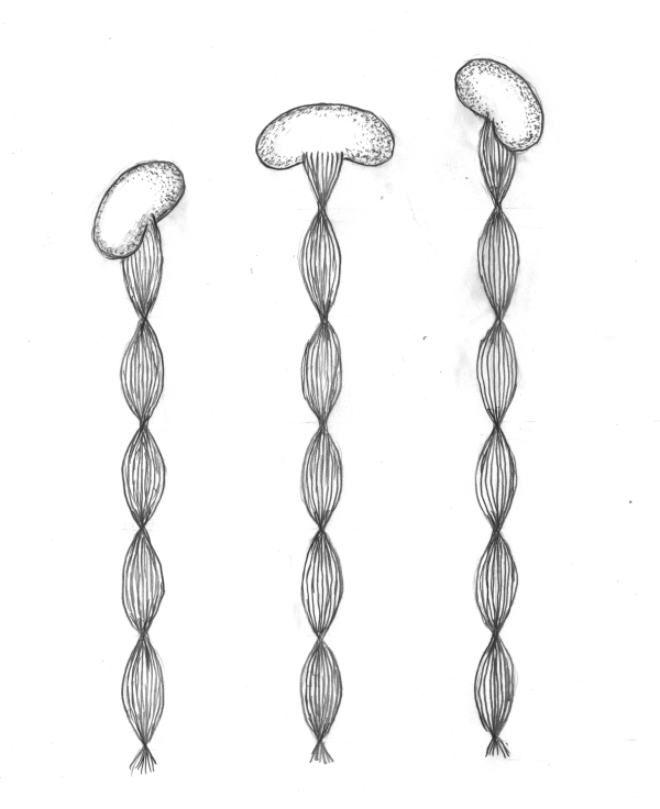 cell of Gallionella ferruginea producing the band involving rotation